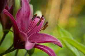 New-Brunswick Botanical Garden